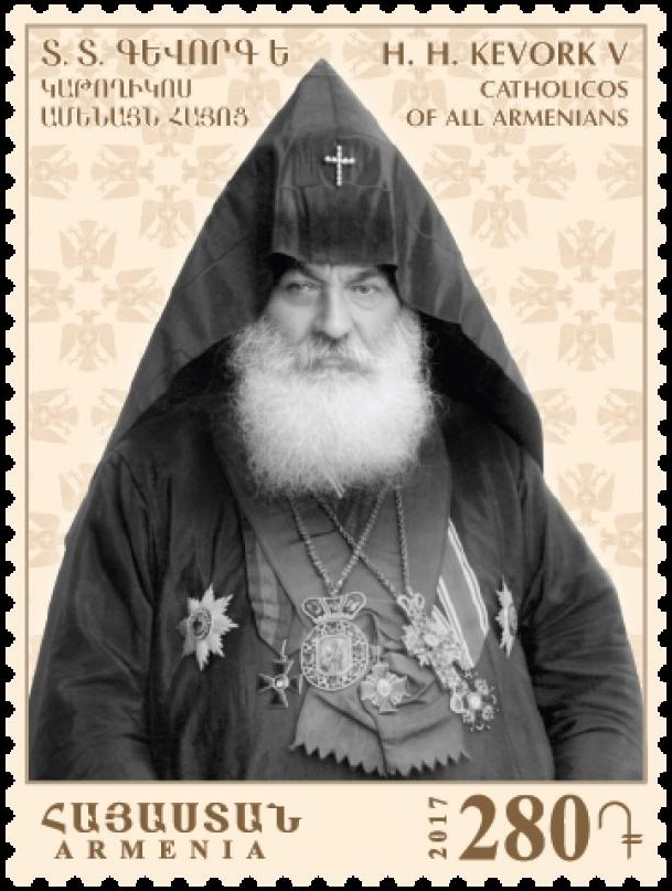 Religion. 170th anniversary of the Catholicos of All Armenians His Holiness Kevork V Soureniants